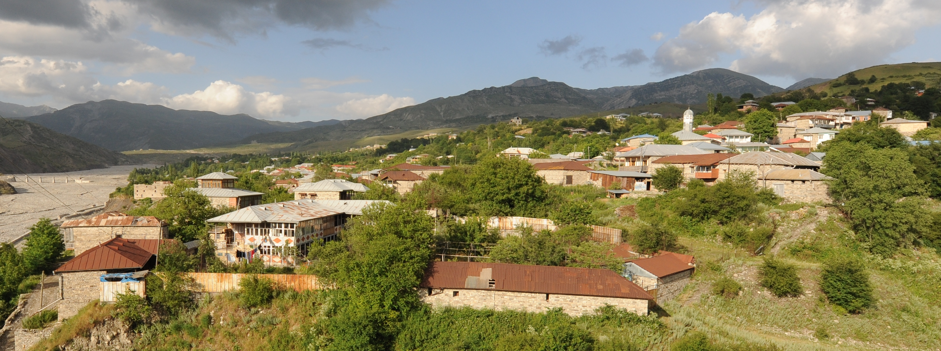 View of Lahij